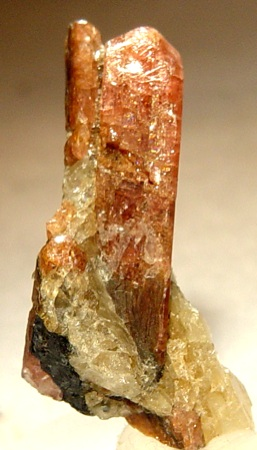 Bustamite Locality: Broken Hill, Yancowinna County, New South Wales, Australia (Locality at ) A FINE, terminated bustamite crystal rising from sparing matrix, showing deep salmon-brown color, pretty good lustre for the species, and complete all around. Not at all common in this quality – a really good mini of this old and classic material from BH. These are just not around! 4 x 2.2 x 1.1 cm